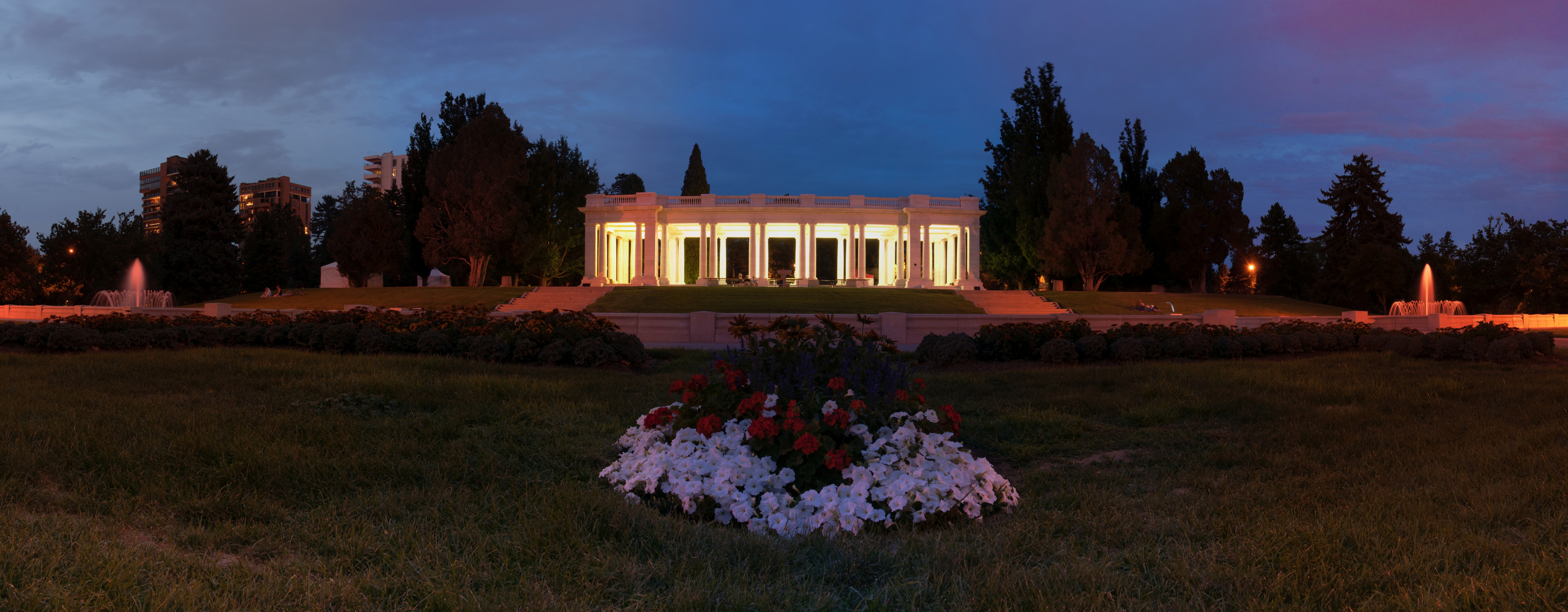 Panorama of Cheesman Park Pavilion at dusk,Denver Colorado.